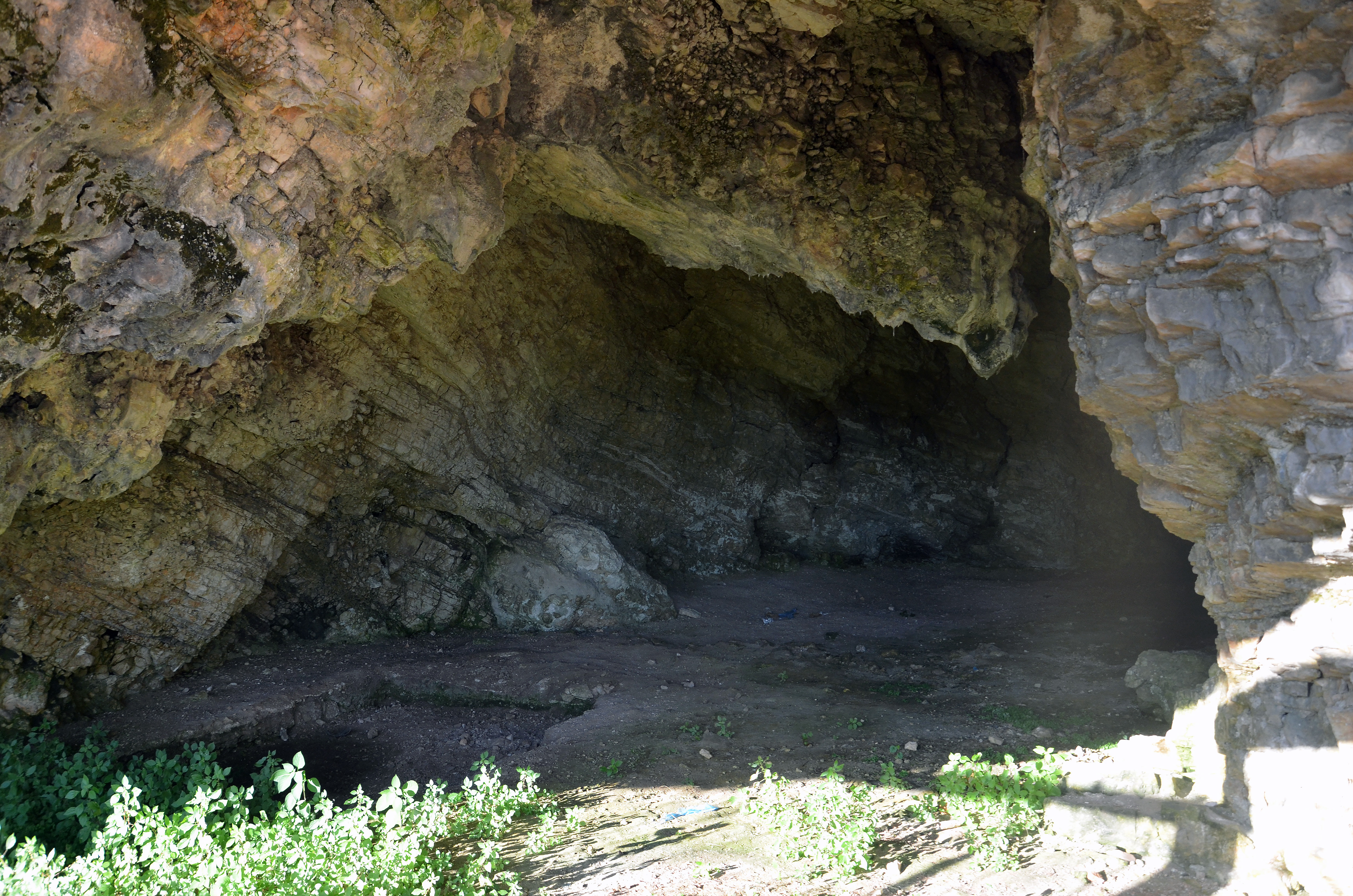 The Spile Cave in Himara habitated during the Middle Paleolithic